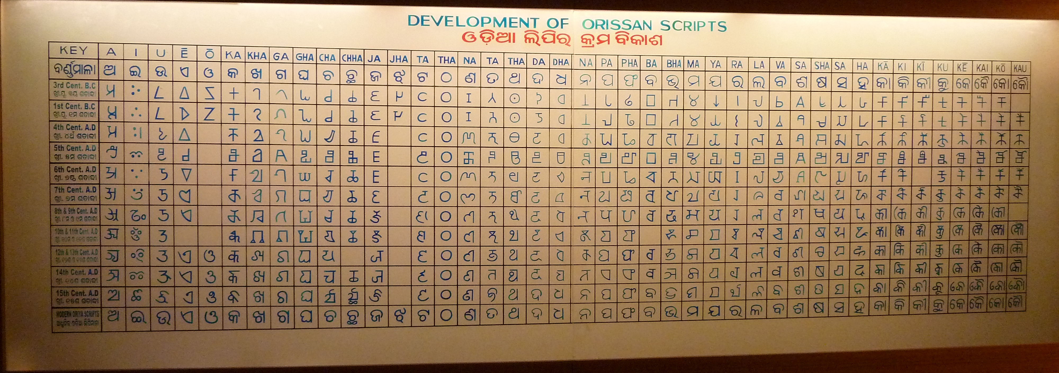 This shows the development of oriyan scripts. This photo was taken in State museum, Bhubaneswar